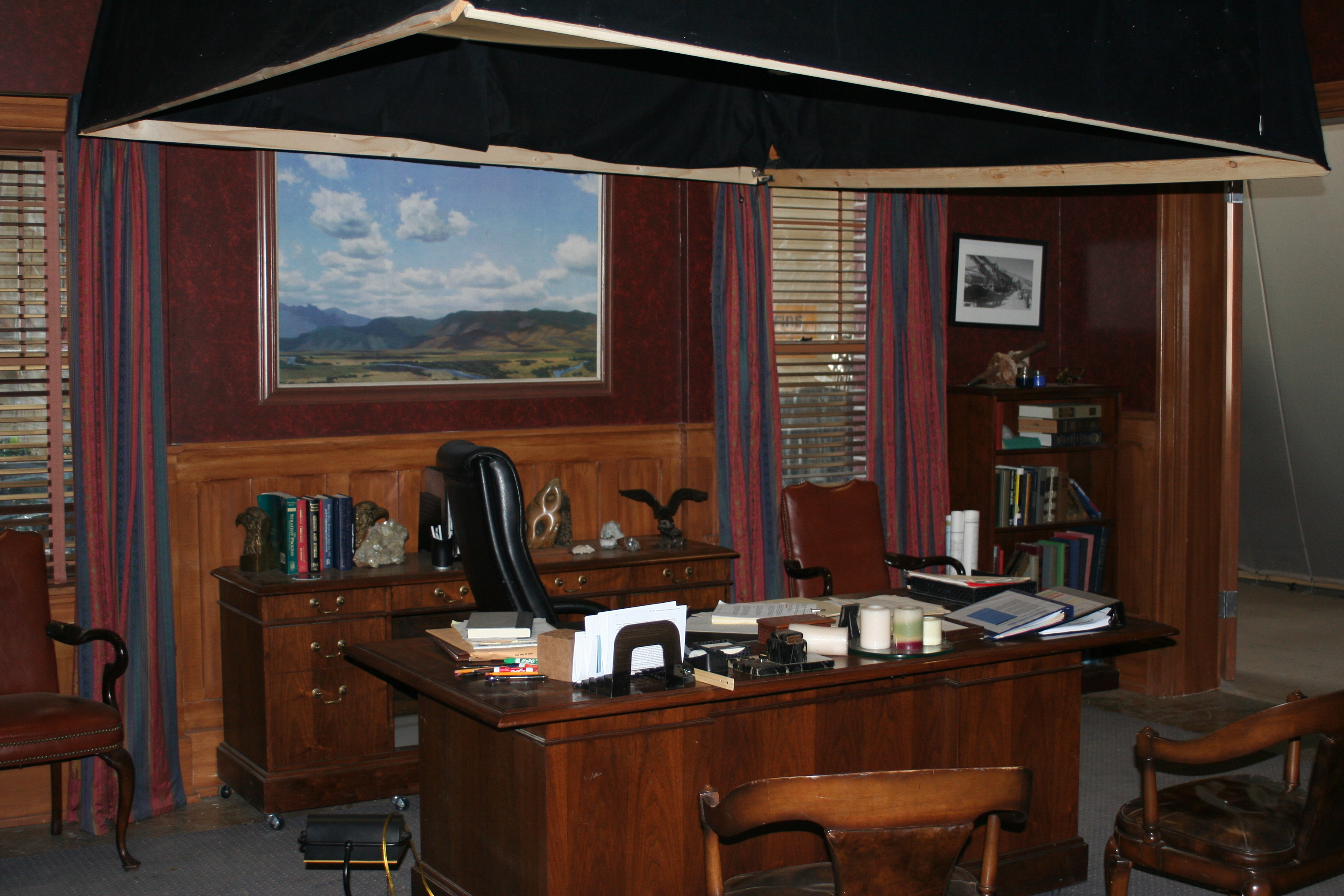 Image of Jericho's mayor's office